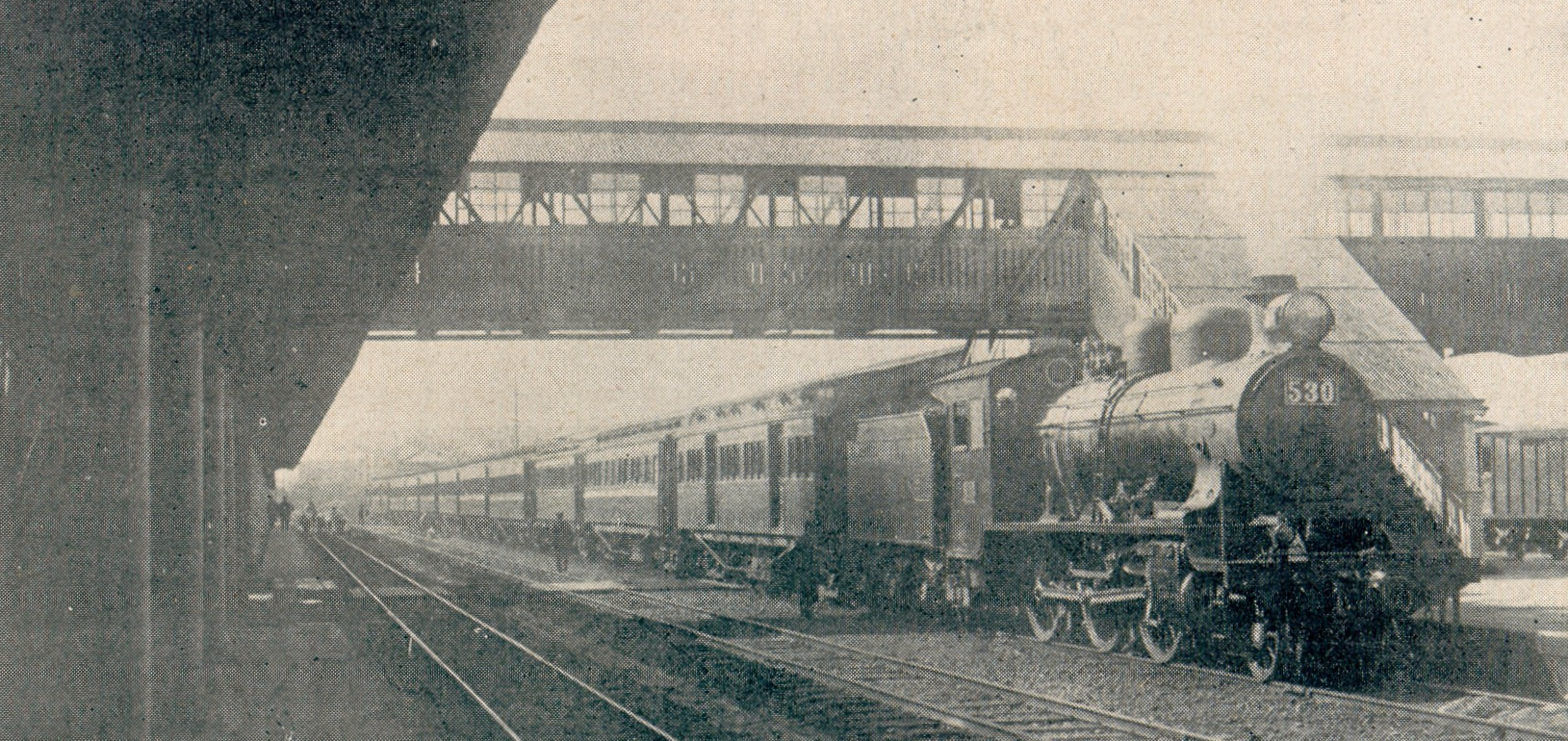 Express running on the Western Line in Taiwan.